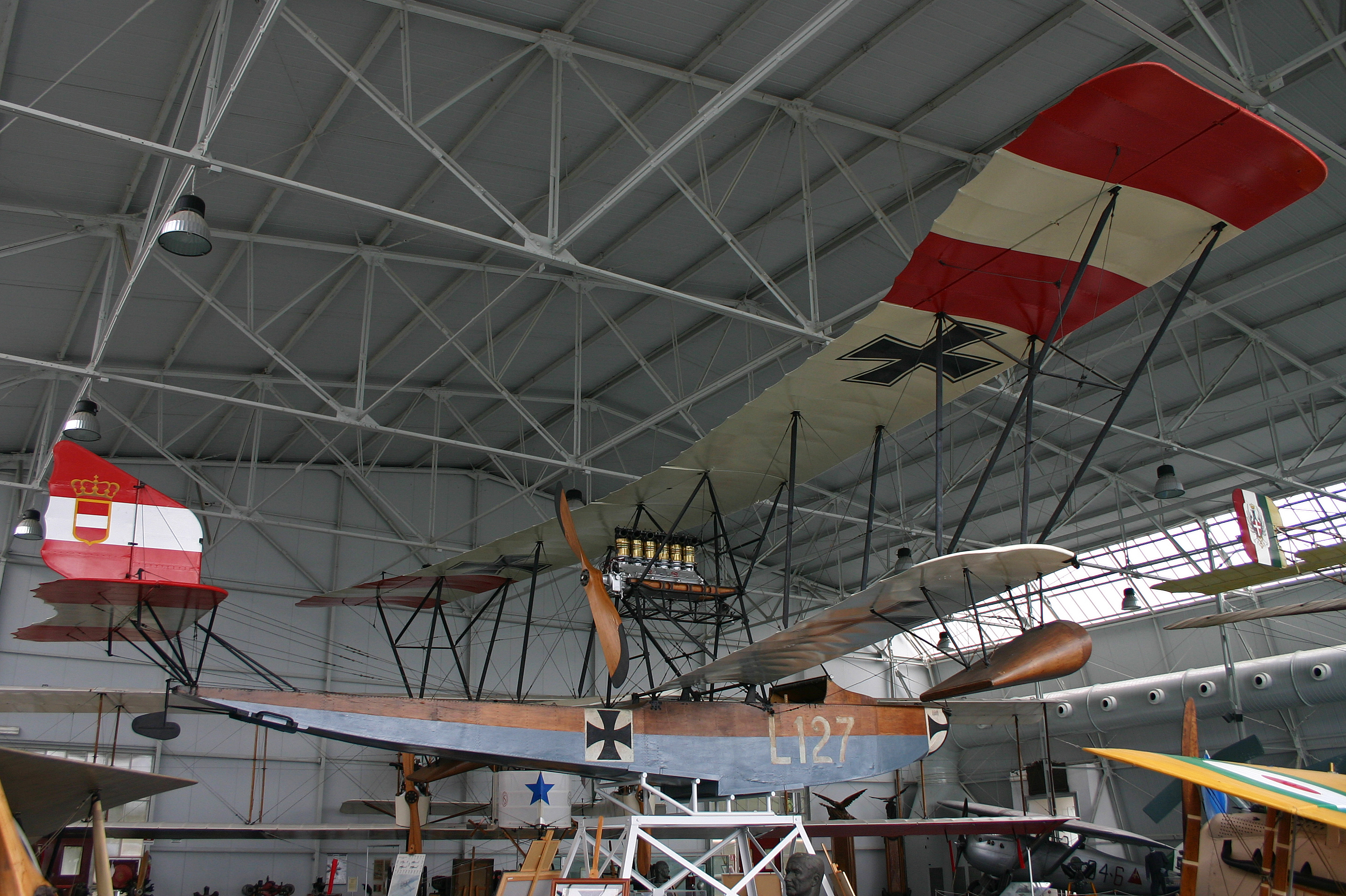 Displayed in hangar TROSTER. Used in raids against Italian bases before being flown to Italy by defectors on 3rd June 1918. Amazingly, it has survived in a very original condition.